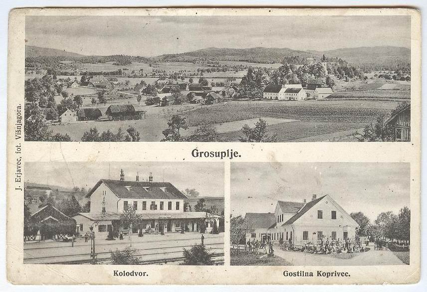 Postcard of Grosuplje, Slovenia.